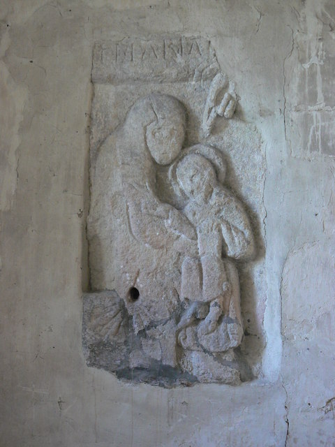 Anglo-Saxon relief of the Madonna and Child with the Hand of God in St John the Baptist's parish church, Inglesham, Wiltshire